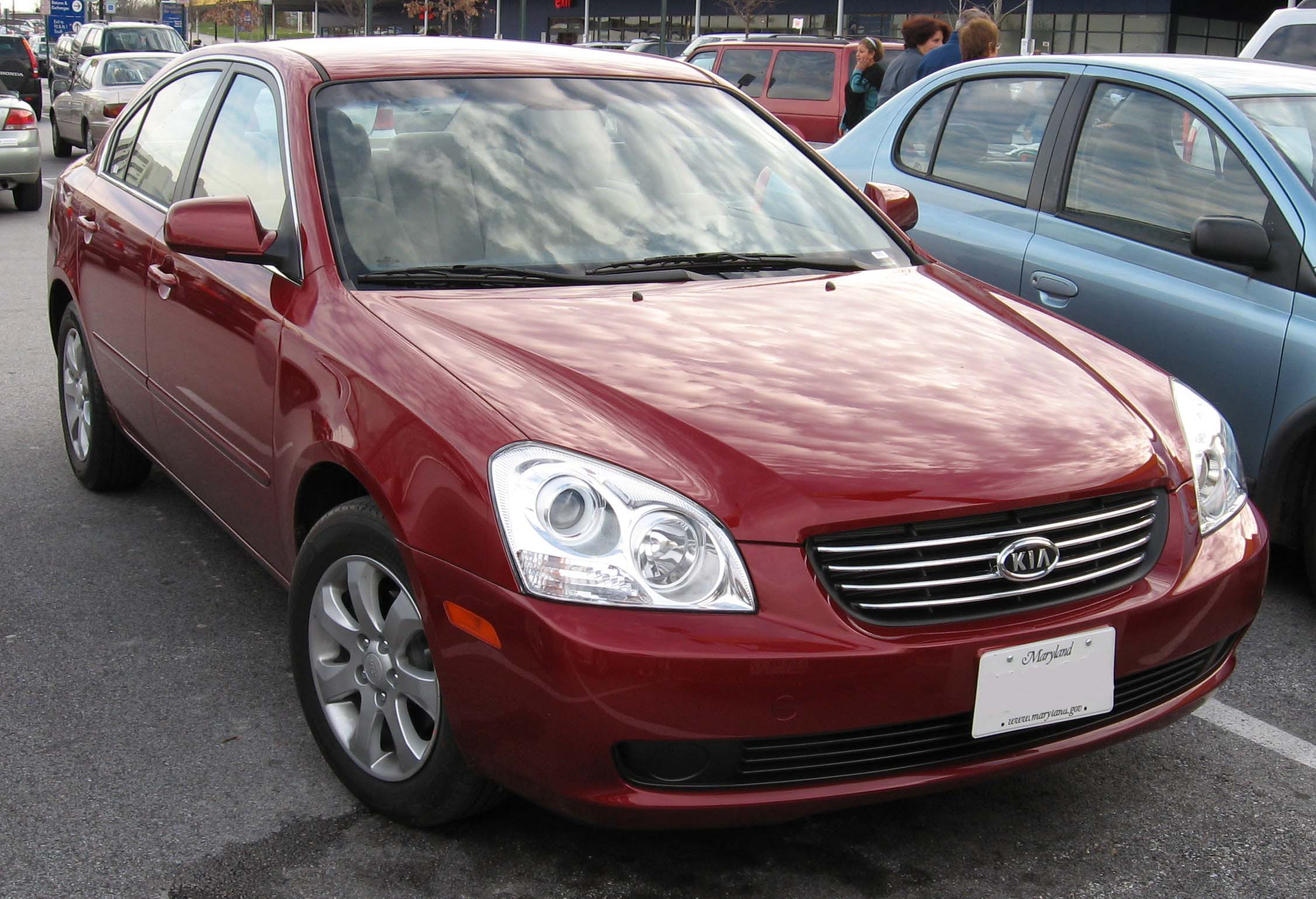 2006-2007 Kia Optima photographed in USA.